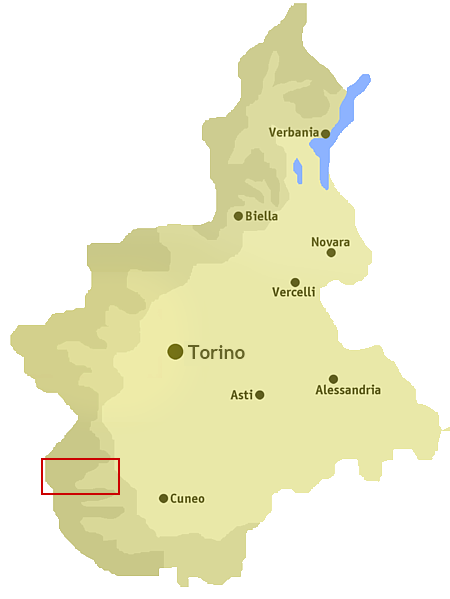 Position of the valley Val Varaita